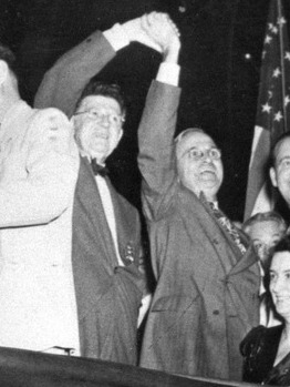 Senator Harry S. Truman (fourth from left) stands before the Democratic National Convention in Chicago, Illinois, as Mayor Ed Kelly of Chicago holds his hand up in the air. Chairman of the Democratic National Committee, Samuel Jackson, stands on the left. All others are unidentified.